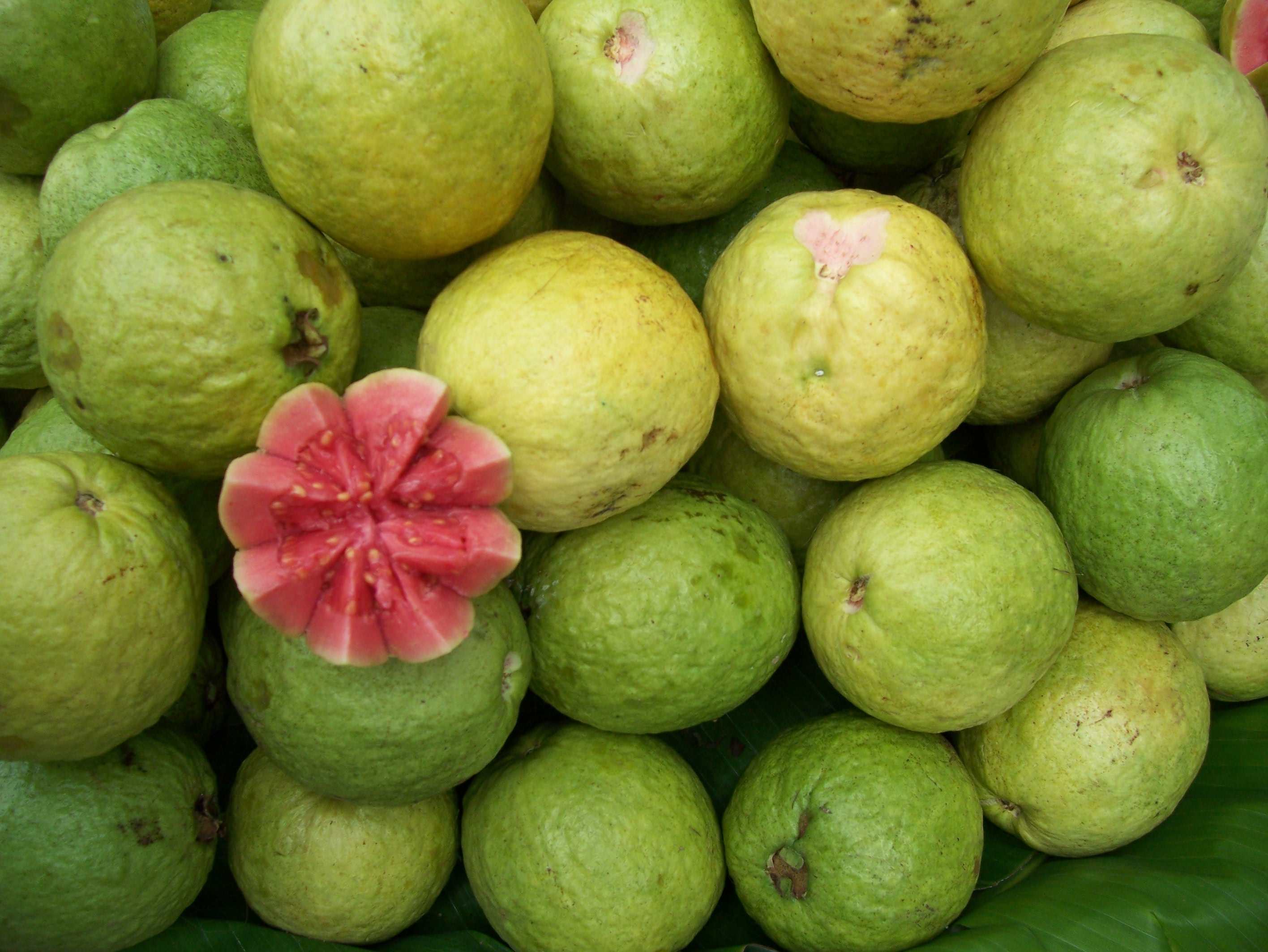 Guava, photographed in Bangalore